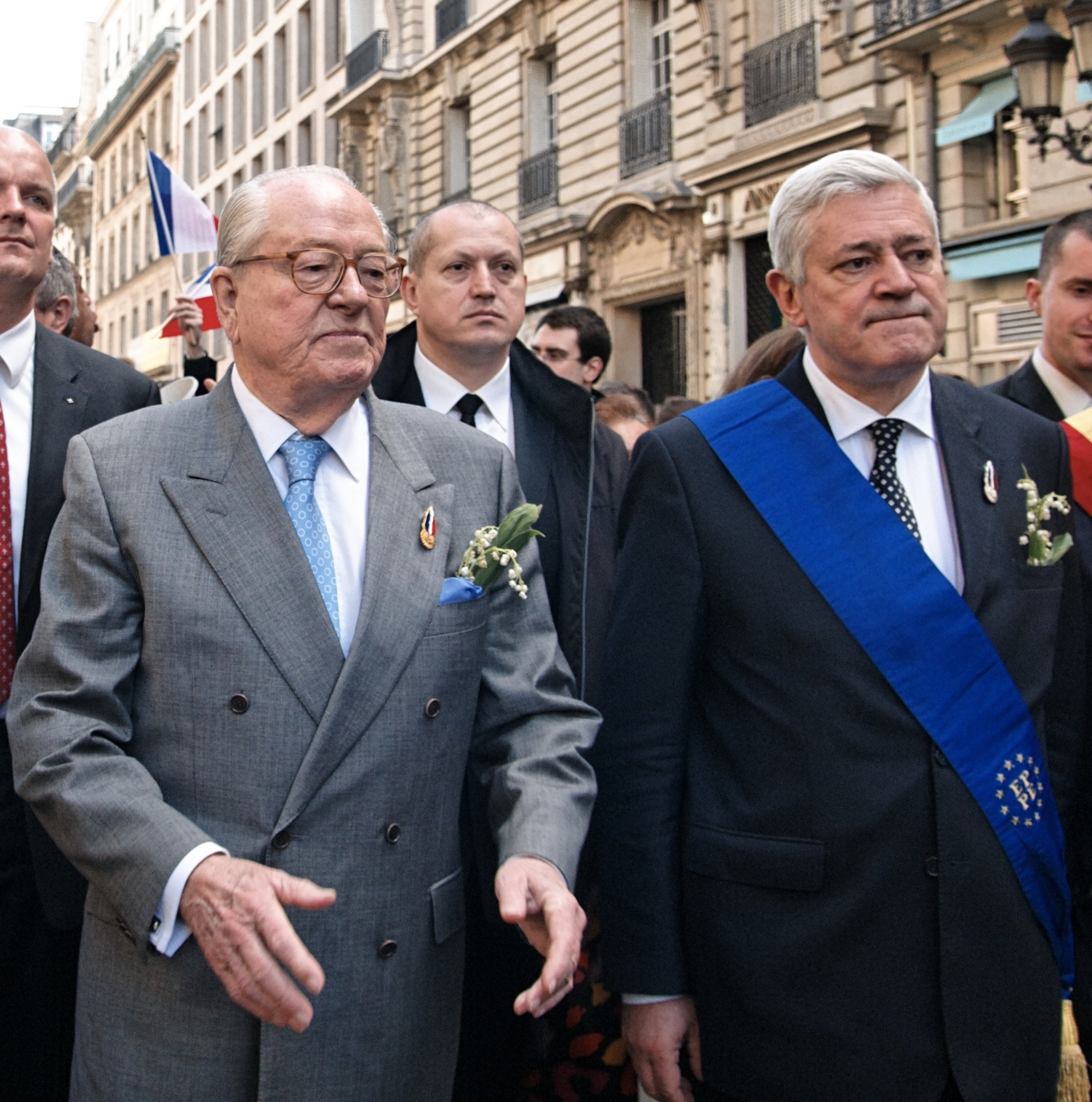 Marine Le Pen, Jean-Marie Le Pen and Bruno Gollnisch, 1st of May National Front's rally in honour of Joan of Arc, Paris.